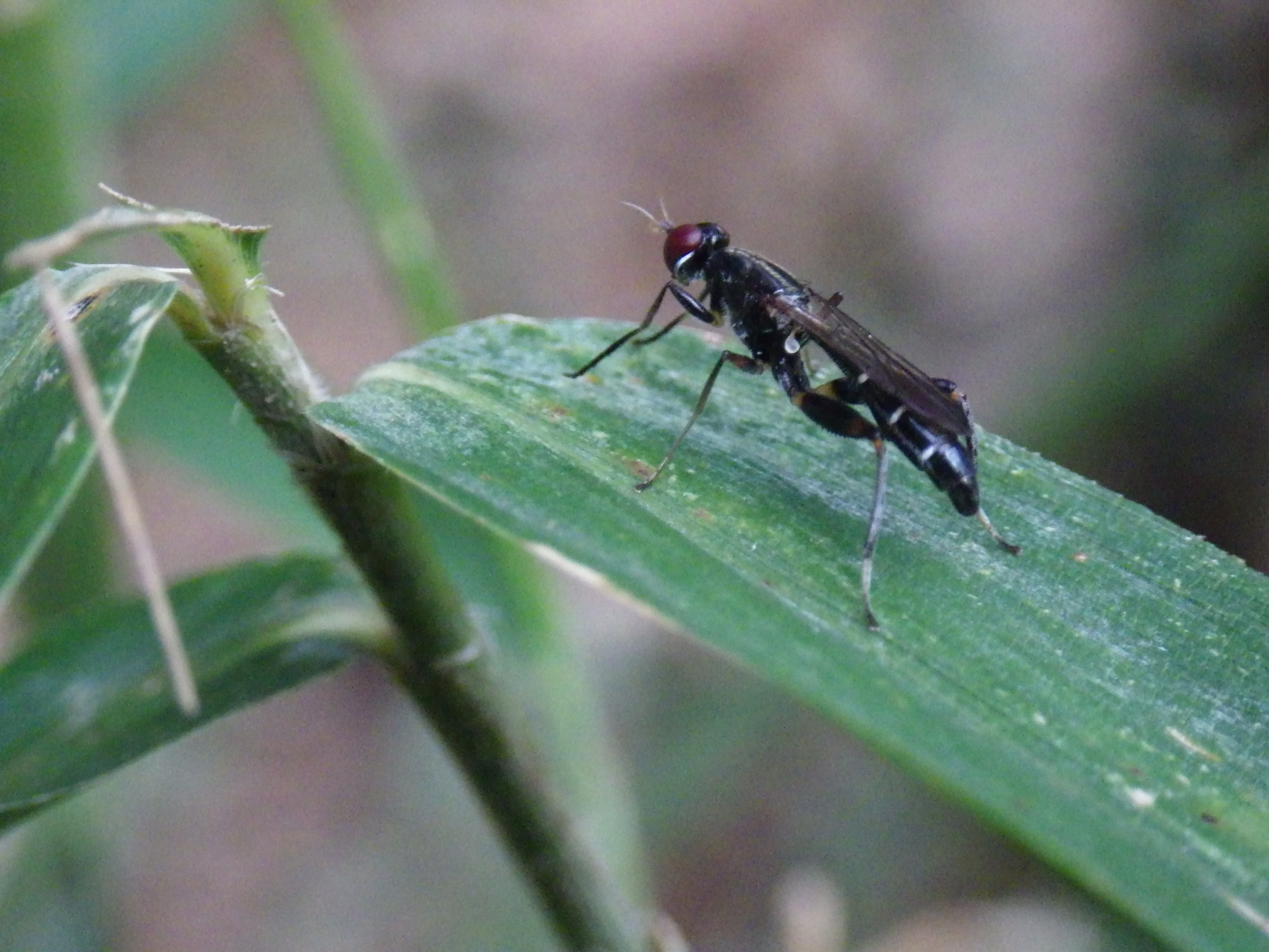 Texara compressa